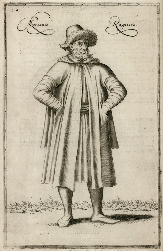 Nicolas de Nicolay. Le Navigationi et viaggi, fatti nella Turchia. Novamente tradotto di Francese in Italiano da Francesco Flori da Lilla, Aritmetico, Venice, Francesco Ziletti, 1580.